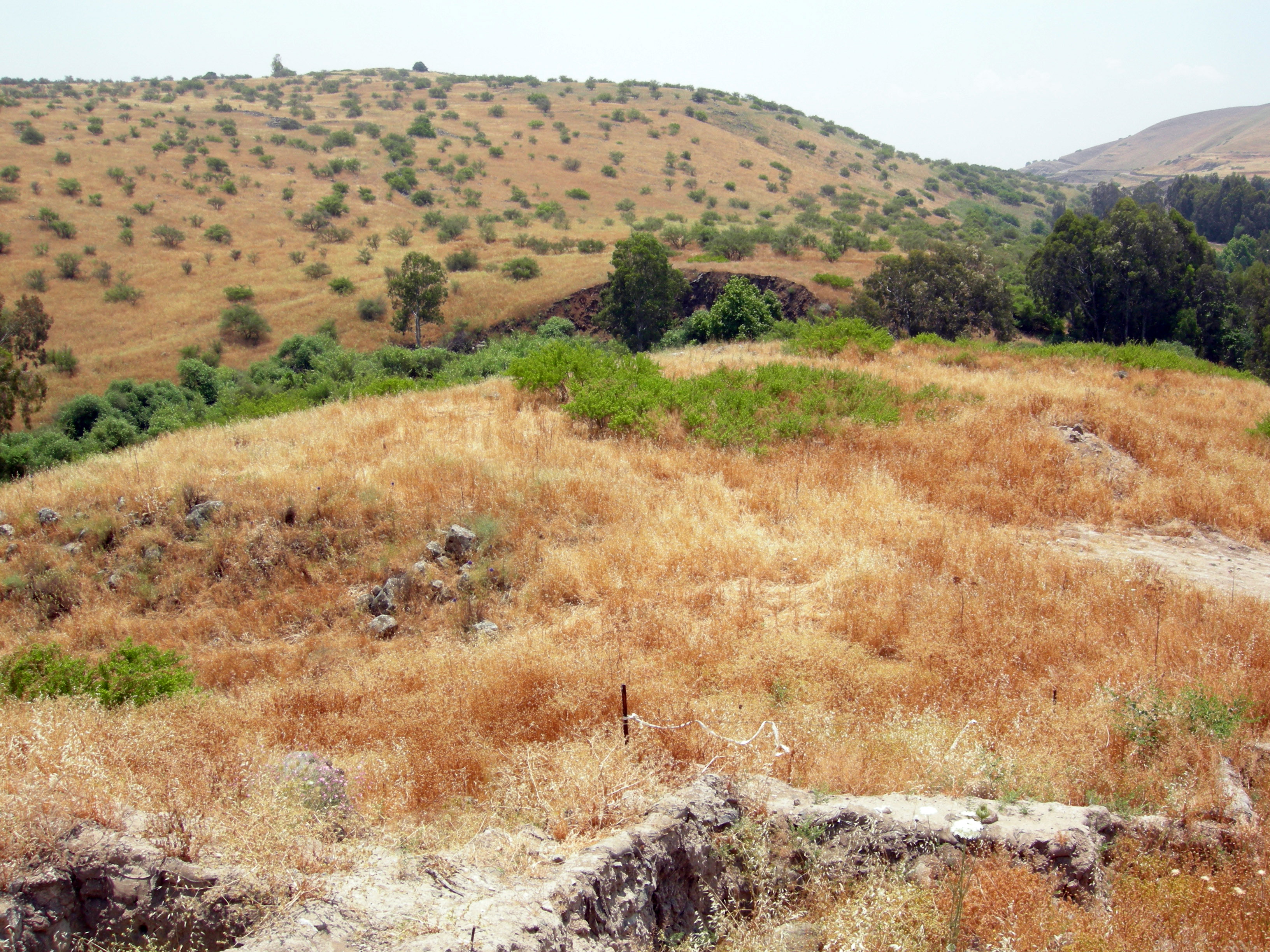 Jacob's Ford Battlefield (1179) on the Jordan River. Looking east from the Crusader fortress across the river in the direction from which Saladin's forces attacked.